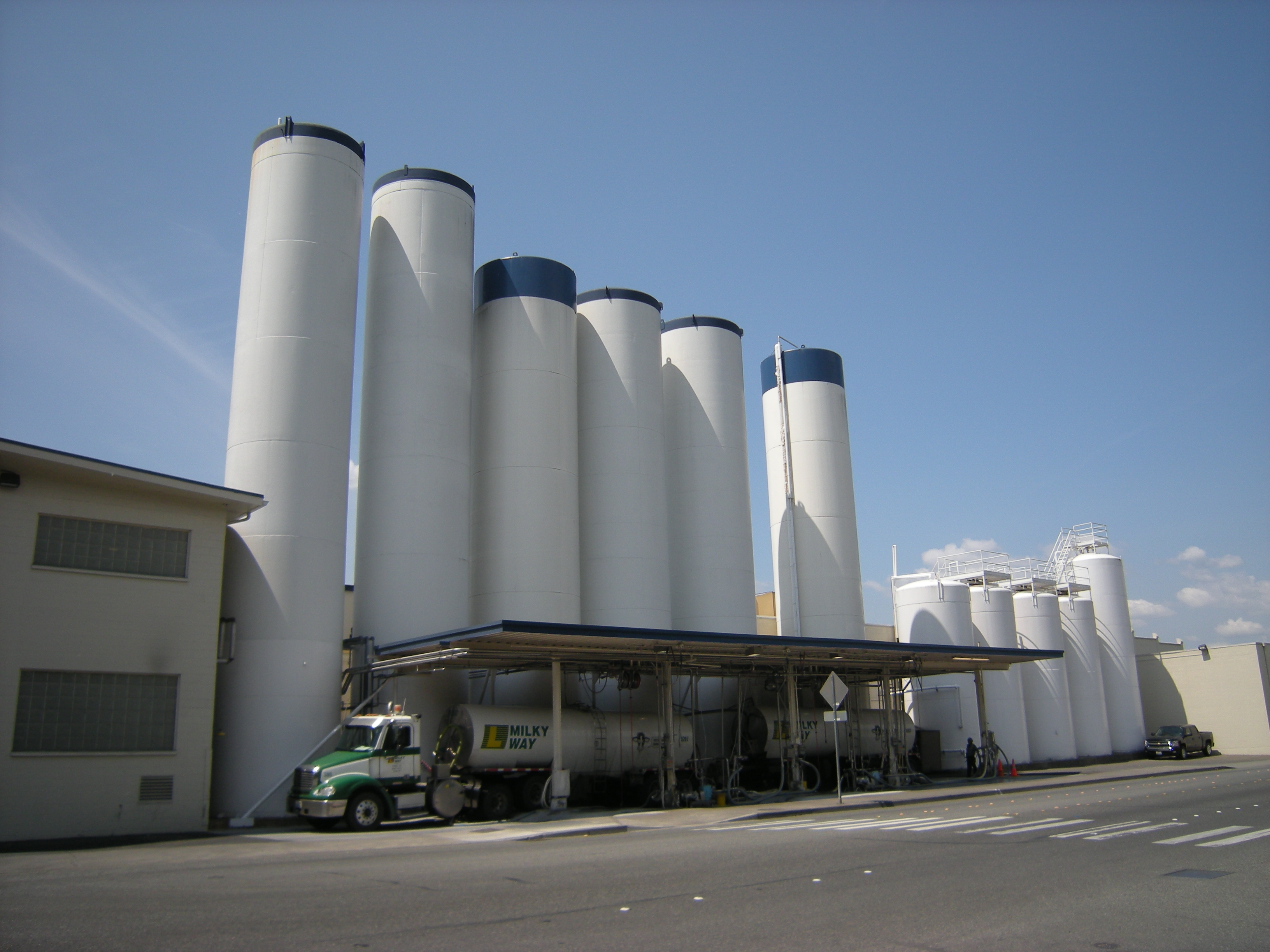 Darigold dairy, Issaquah, Washington.